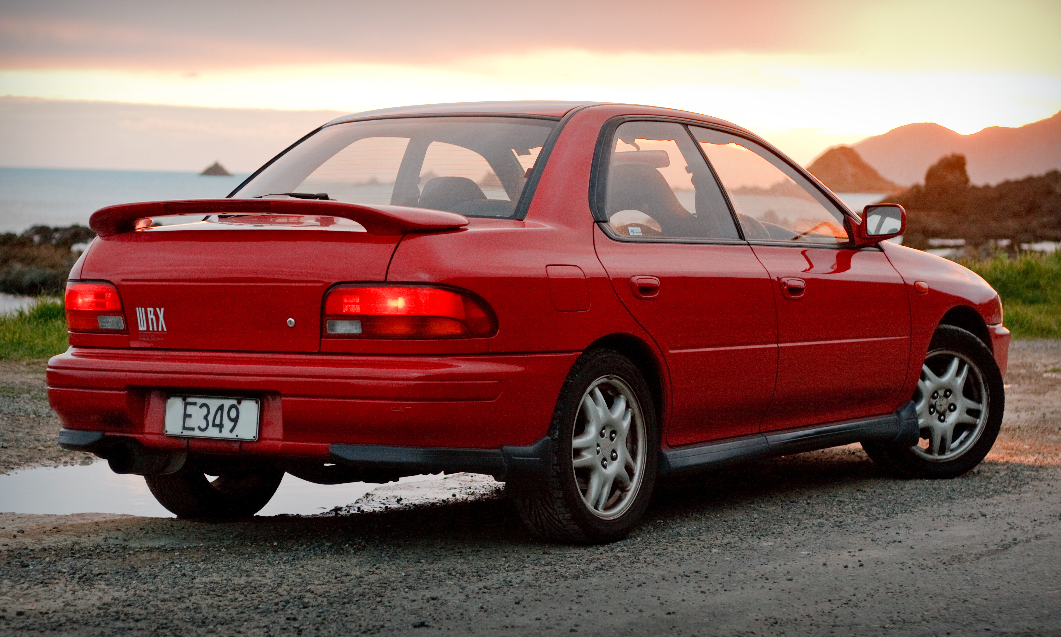 1995 Subaru WRX in New Zealand